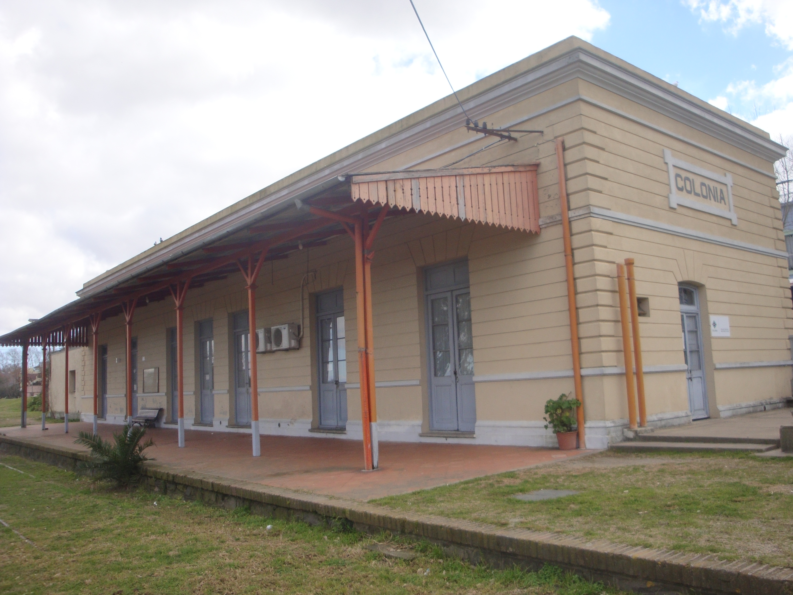 Colonia del Sacramento Railway station